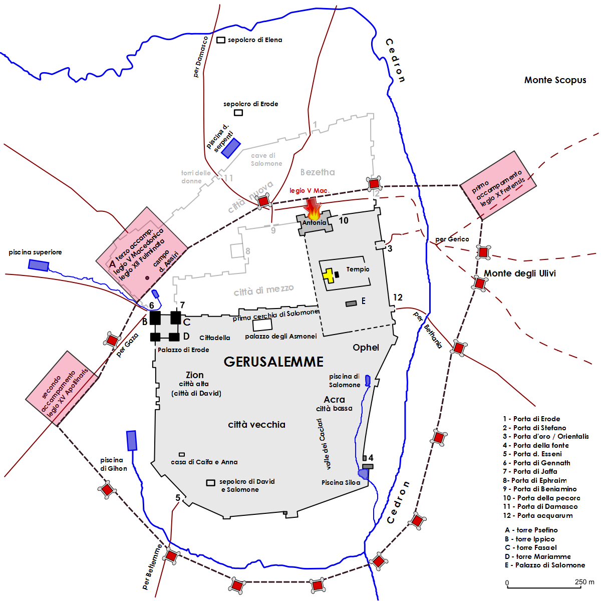 Jerusalem at the time on siege of 70 - 7th step